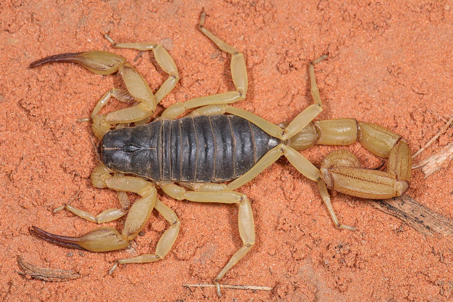 Black Hairy Scorpion (Hadrurus spadix)